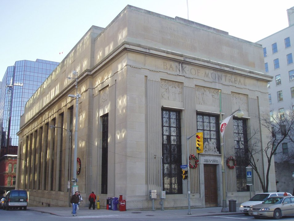 The Wellington Street Bank of Montreal Branch on Ottawa. Taken by SimonP